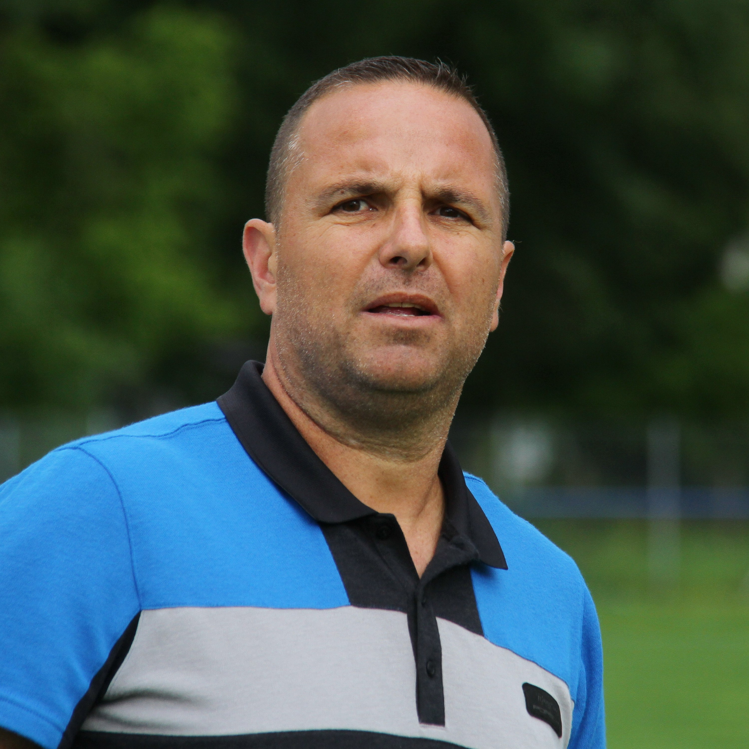 Friendly match between Beitar Jerusalem F.C. (yellow shirts) and MTK Budapest FC (blue shirts) at 2016-06-18 in Bad Erlach (Austria. – The photo shows Ran Ben-Shimon, head-coach of Beitar Jerusalem F.C.